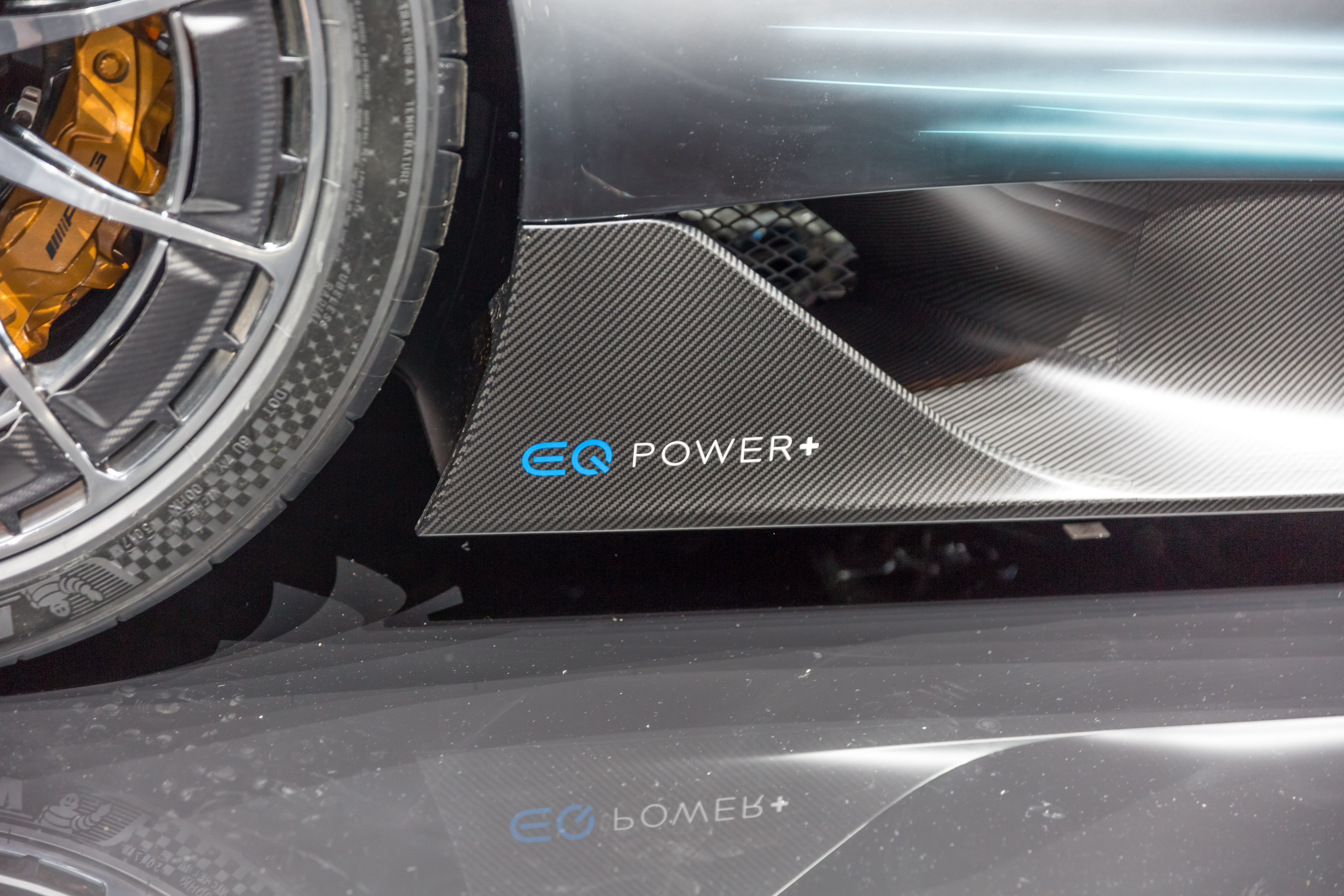 Mercedes-AMG Project One, IAA 2017